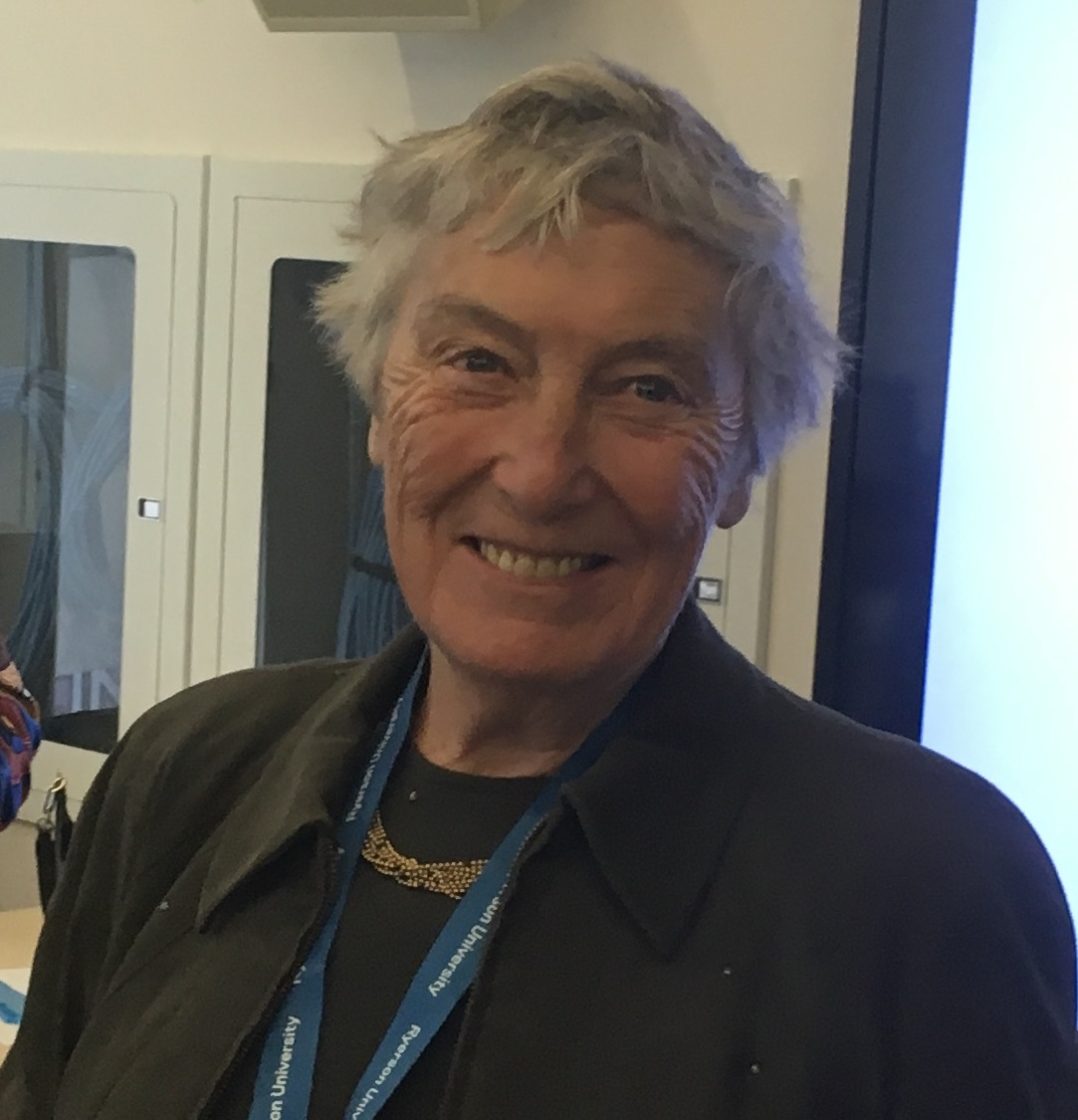 Dean Emerita Gillian Wu Gillian Elizabeth Wu (born 1943) is a Canadian Immunologist and the former Dean of Pure and Applied Science and Professor Emerita of York University